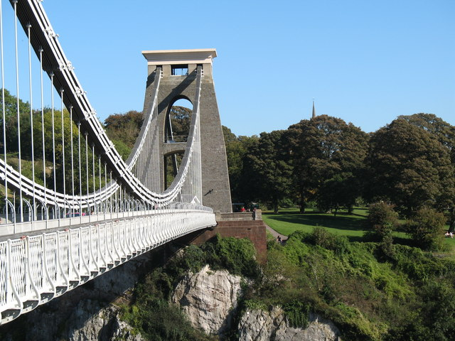 Clifton Suspension Bridge, Bristol Looking towards Clifton.